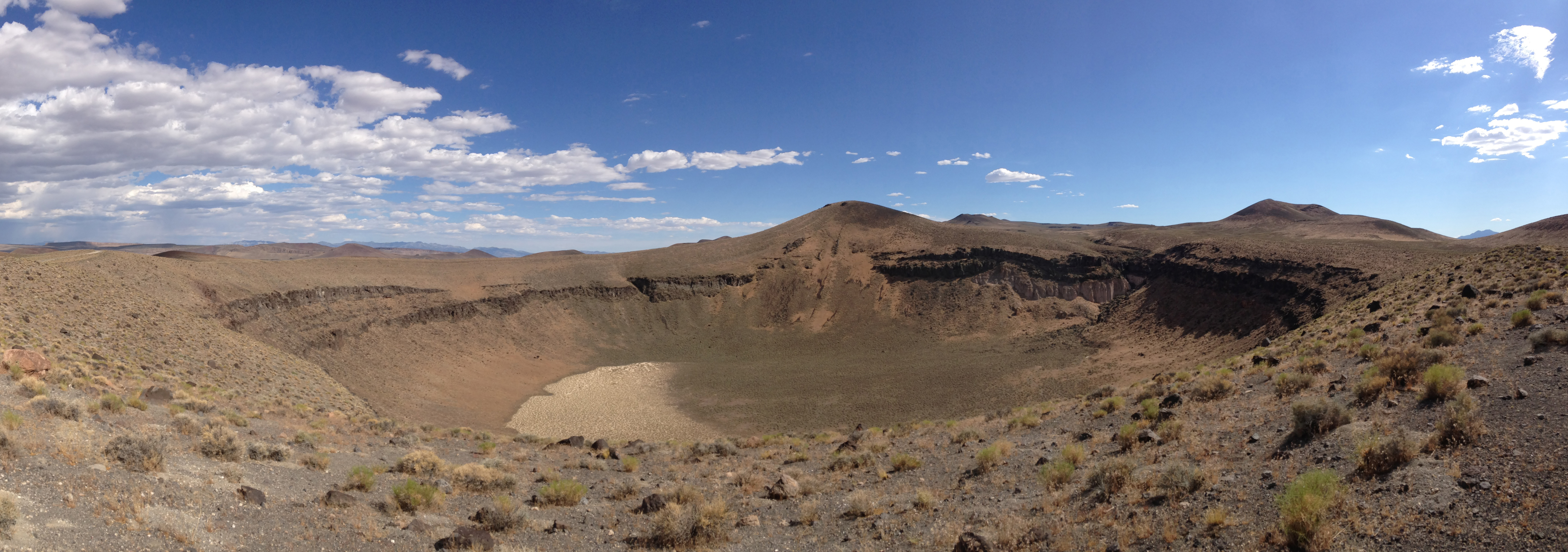 Panorama of the Lunar Crater, Nevada-cropped